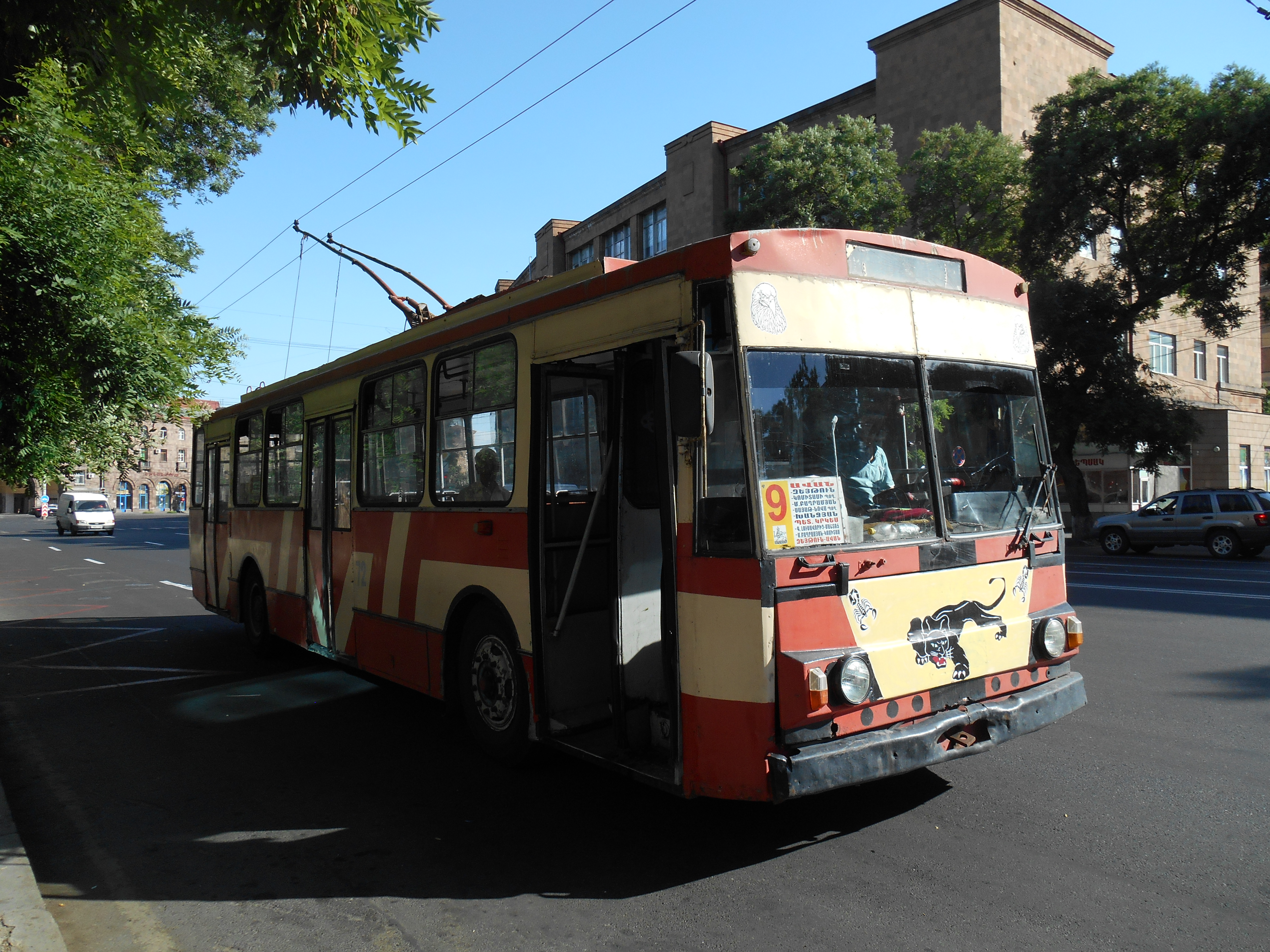 A Škoda 14Tr trolley Bus in Yerevan, Armenia.